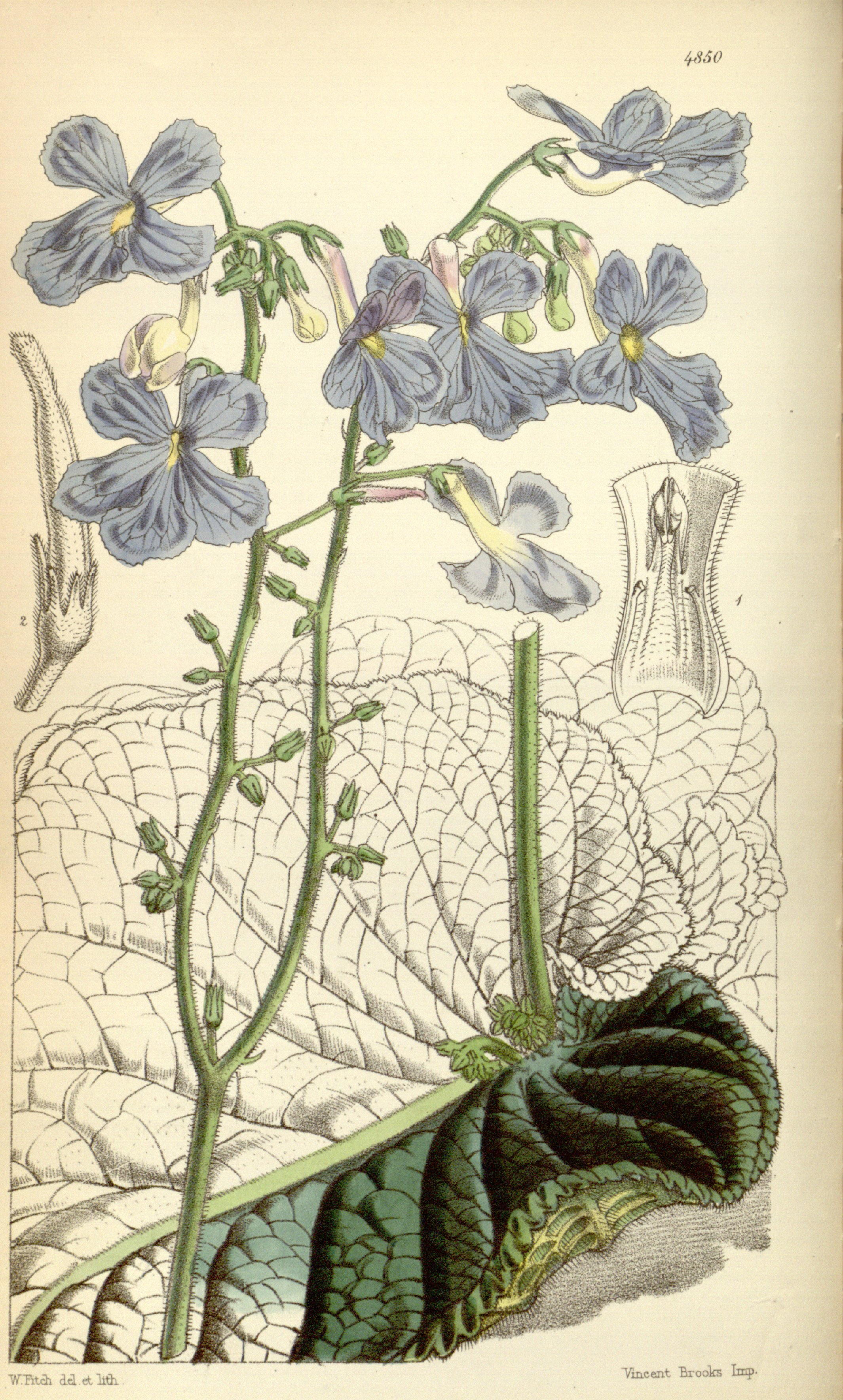 Streptocarpus polyanthus, Bot. Mag. 81: t. 4850. 1855.